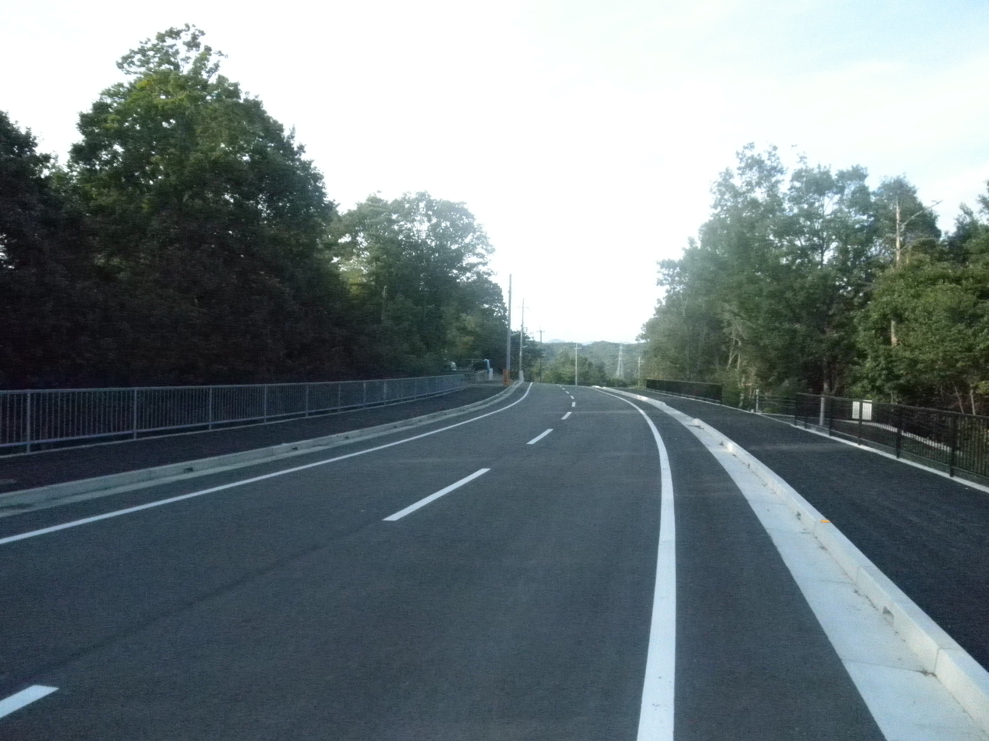 Jiyugaoka-honmachi Mikicity Hyogopref Hyogoprefectural 514 Shijimi Tuchiyama Line